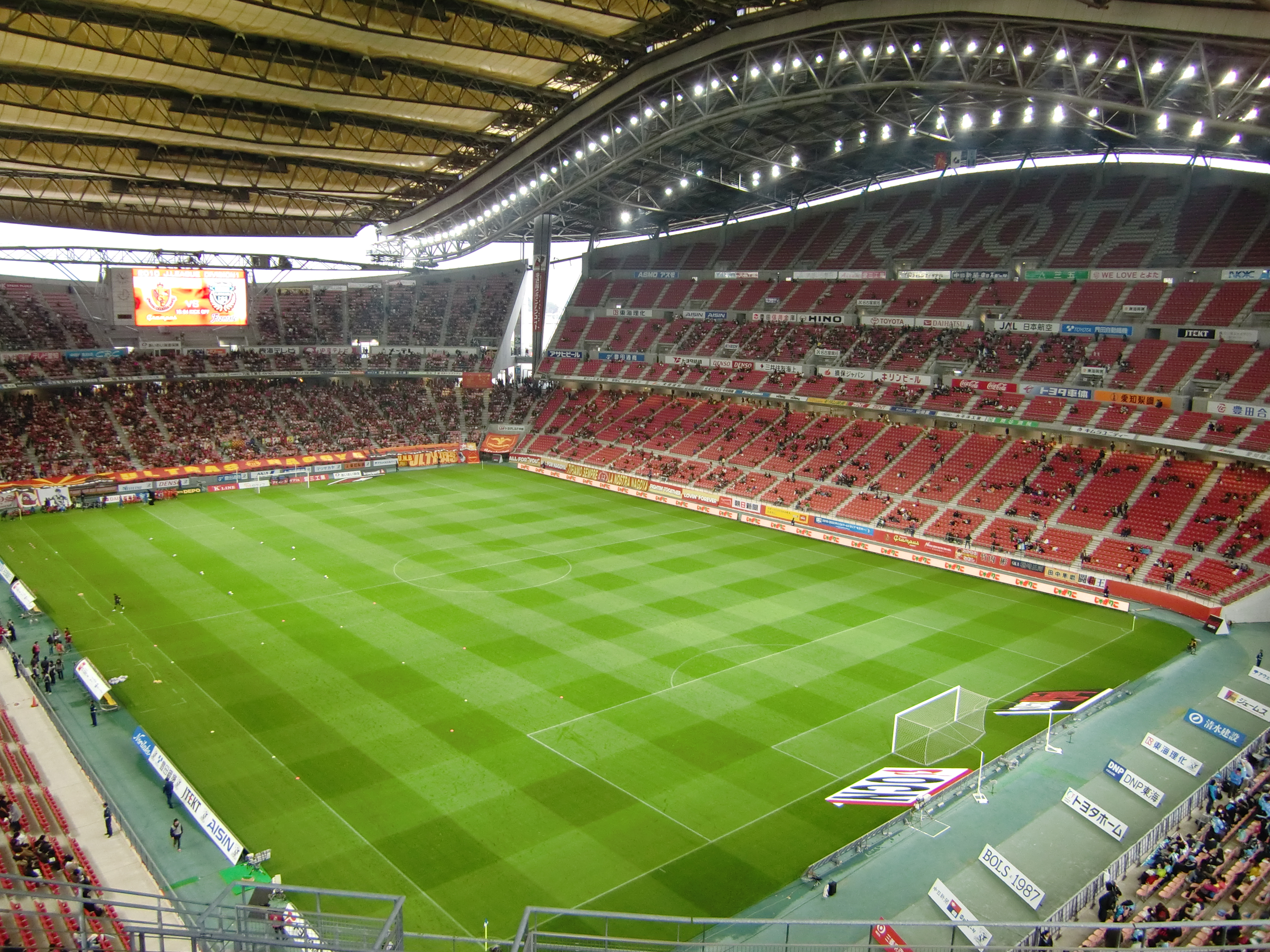 Toyota Stadium. Toyota-city,Aichi-Pref,Japan